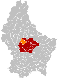 Own edit of Kanton MerschLocatie.png